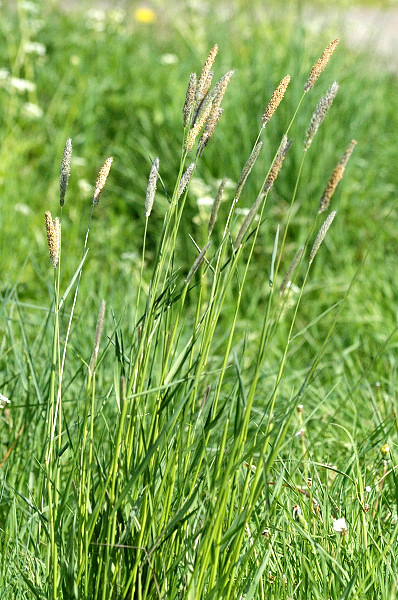 Picture taken in Commanster, Belgian High Ardennes . Species: Alopecurus pratensis